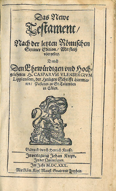 front page of the catholic bibel by Caspar Ulenberg from 1630, who had made a revision of the Upper German translation of Johann Dietenberger from 1534 according to the roman-catholic revision of the Vulgata under pope Clement VIII. in 1592 (The Clementine Vulgate). Ulenberg finished the work 1617, but because of the Thirty Years' War it was not published before 1630. Full text: Das Newe Testament / Nach der letzten Römischen Sixtiner Edition / Mit fleiß vbergesetzt. Durch Den Ehrwürdigen Hoch=gelehrten H. CASPARVM VLENBERGIVM Lippiensem, der Heiligen Schrifft Licentia=ten / Pastoren zu St. Columben in Cöllen. Gedruckt durch Henrich Krafft. In verlegung Johan Kreps. In der Quenteleyen. Im Jahr M.DC.XXX. Mit Röm.Keys.Maiest. Gnad vnd Freyheit.